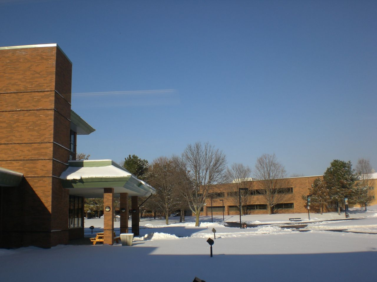 SUNYIT, near Utica, New York, United States.